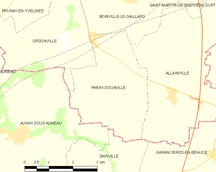 Map of French municipality Paray-Douaville